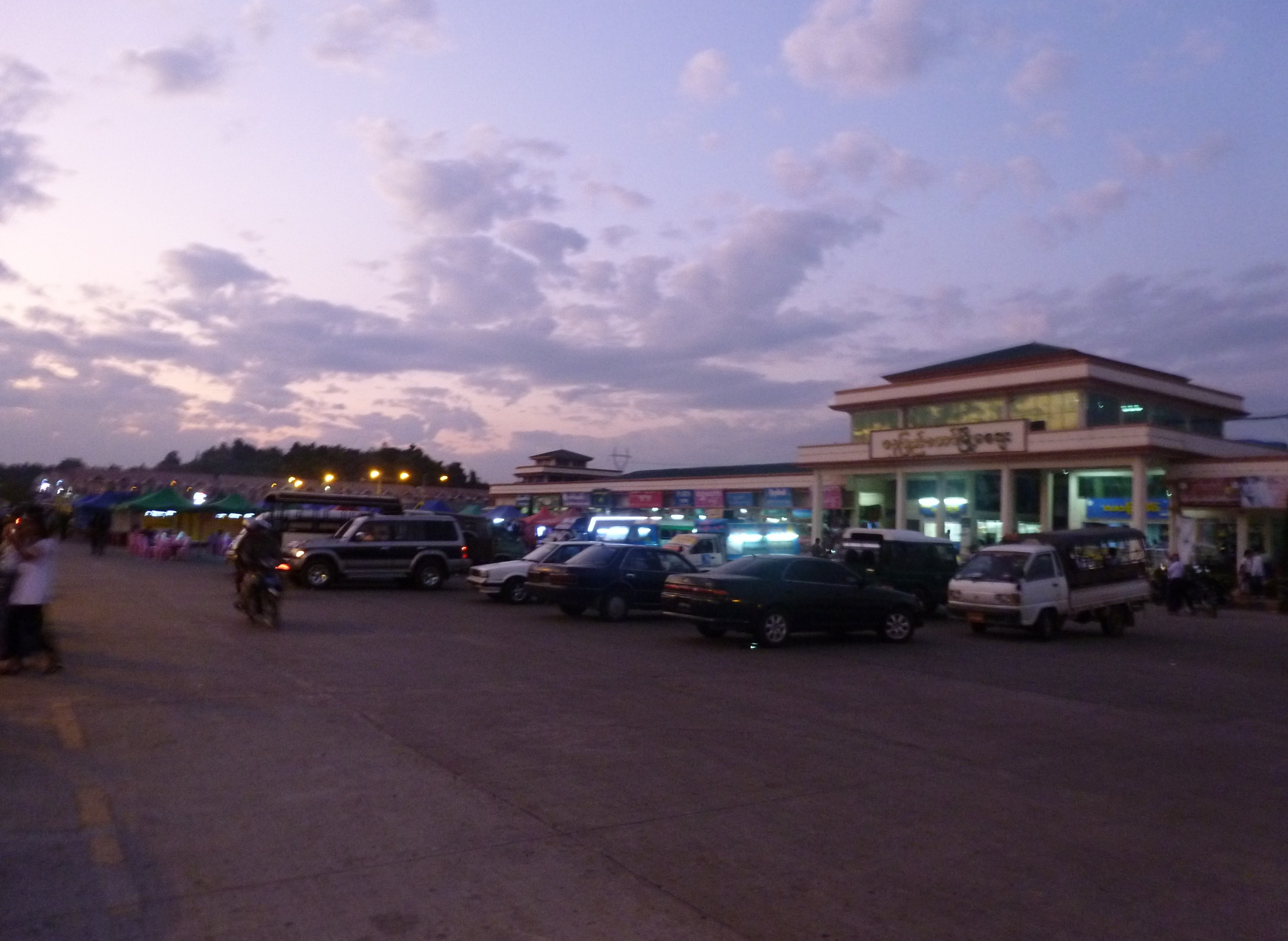 Myoma Market, the main market in Naypyidaw